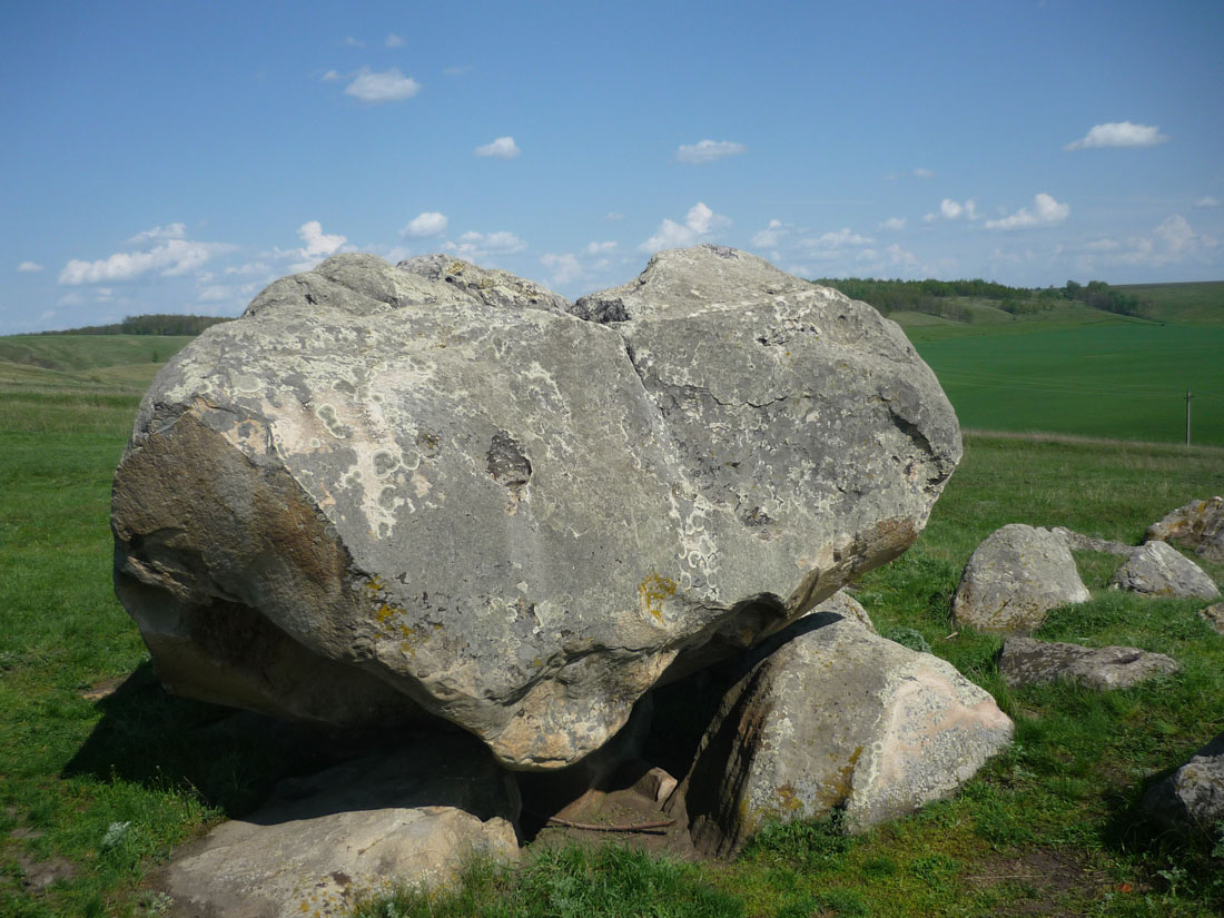 Kon-kamen